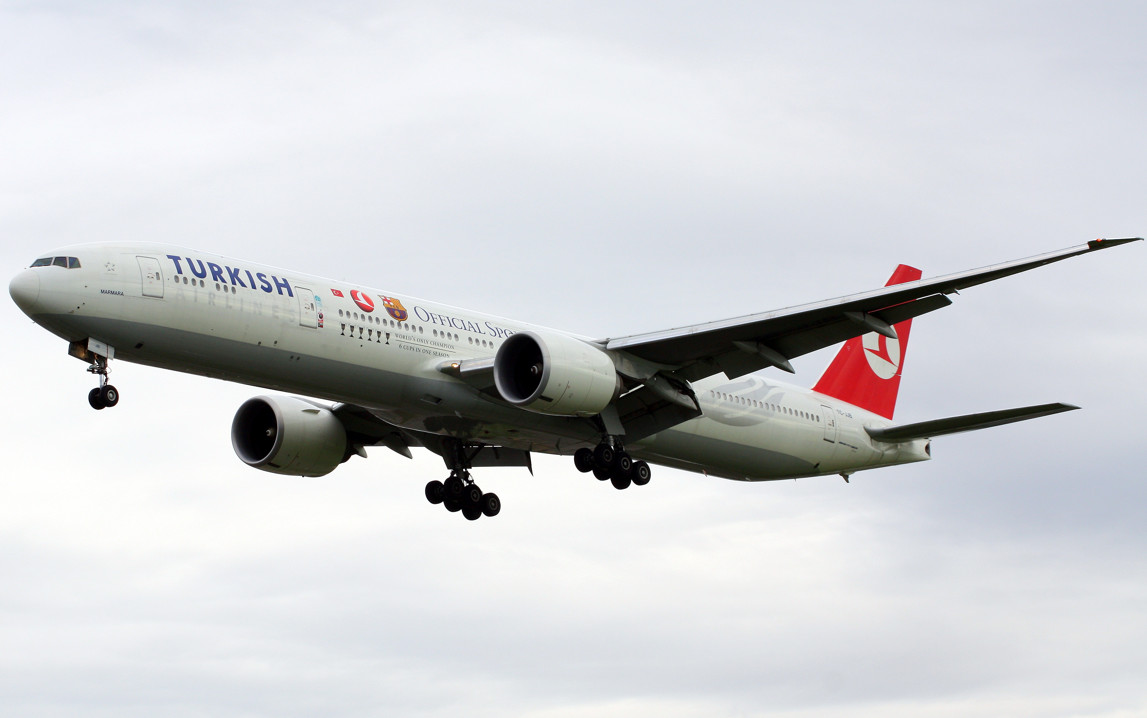 Turkish Airlines B777-300ER TC-JJB at LHR